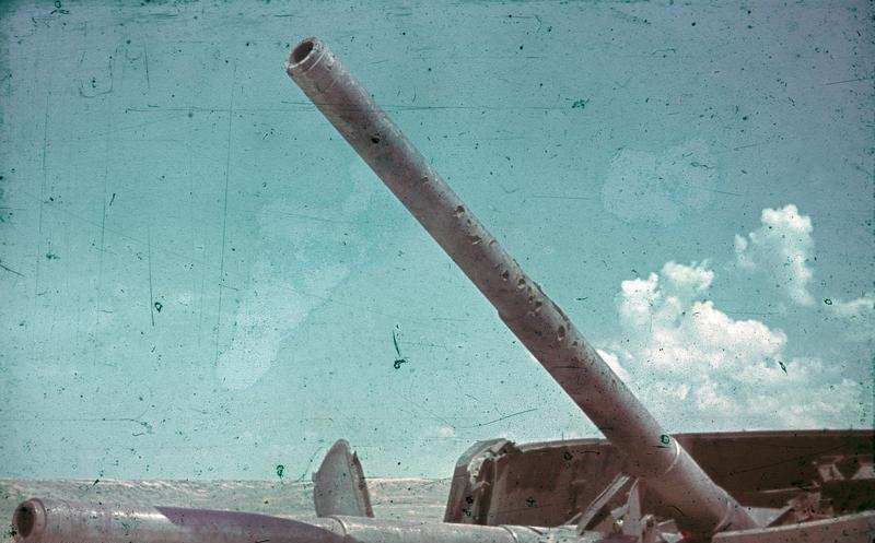 Destroyed 12-inch (Obukhovskii 12-inch Pattern 1907 gun) twin turret, Fort Maxim Gorky, Sevastopol, Russia